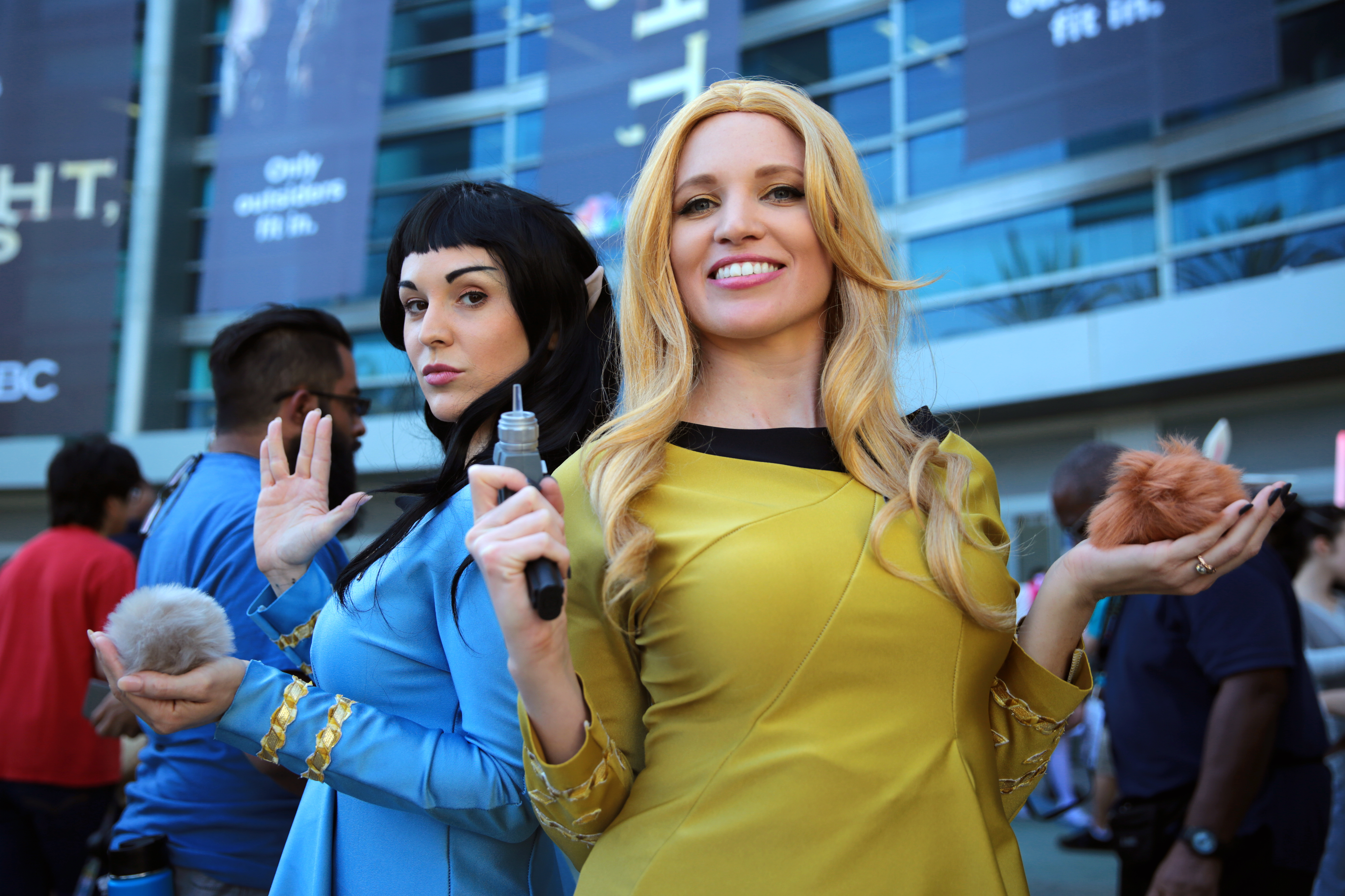 Star Trek cosplayers at the 2017 WonderCon at the Anaheim Convention Center in Anaheim, California.